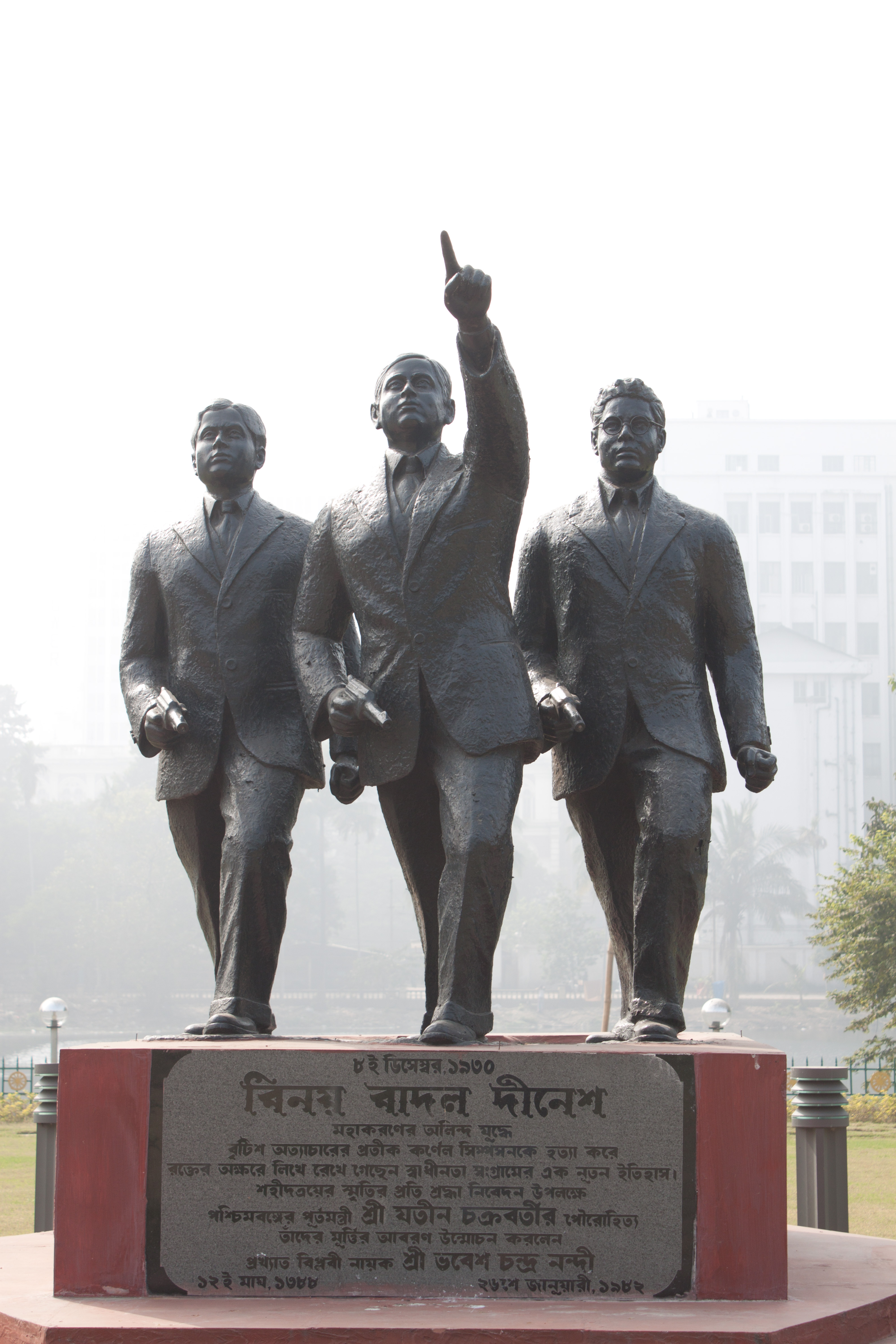 Statue of Binay Badal Dinesh in front of the Writers Building